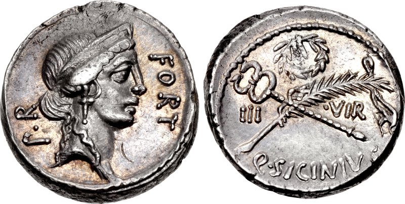 Q. Sicinius Early 49 BC. AR Denarius (17mm, 3.91 g, 1h). Rome mint. Diademed head of Fortuna right, wearing cruciform earring and hair collected into a knot behind, two locks falling down her neck; P • R to left, FORT to right / Palm frond and winged caduceus, bound with fillet, in saltire; wreath with fillet above; III • VIR across field; Q • SICINIVS below. Crawford 440/1; CRI 1; Sydenham 938; Kestner 3509; BMCRR Rome 3947; Sicinia 5. EF, lightly toned, small banker’s mark in obverse field. From the Goldman Roman Imperatorial Collection. Ex Classical Numismatic Group 73 (13 September 2006), lot 799; Spink 159 (12 July 2002), lot 1014.